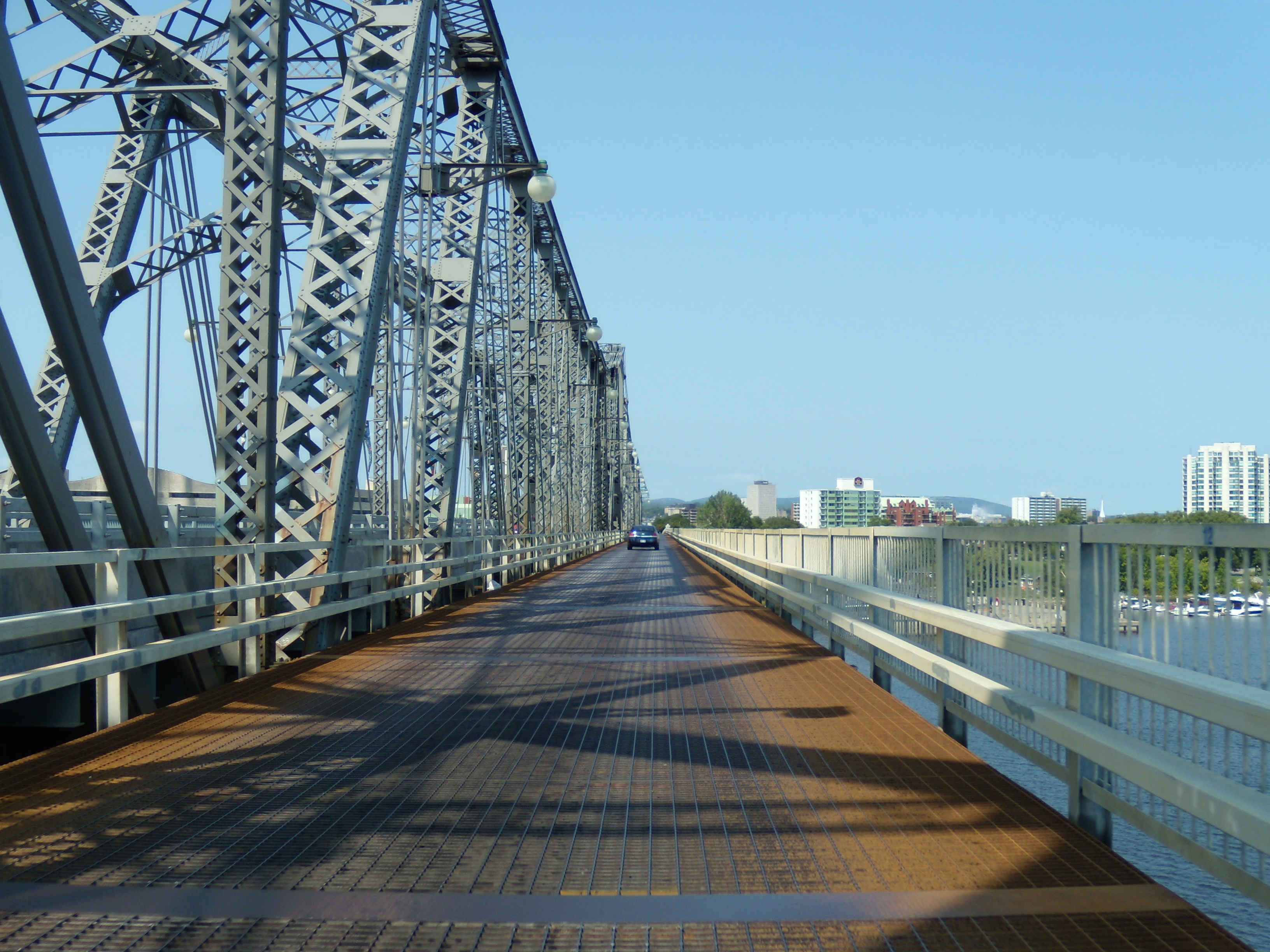 Alexandra Bridge spanning Ottawa, Ontario and Gatineau, Quebec